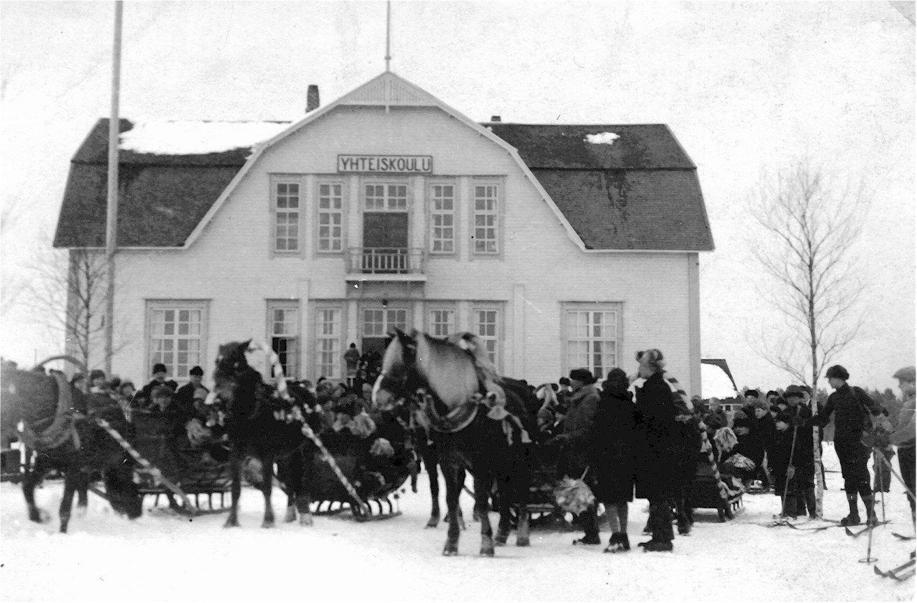 The traditional Finnish last school day festival (penkinpainajaiset) of the leaving students (abitur) at the Haapavesi high school (lukio) in 1928, the first such festival ever held in Haapavesi.